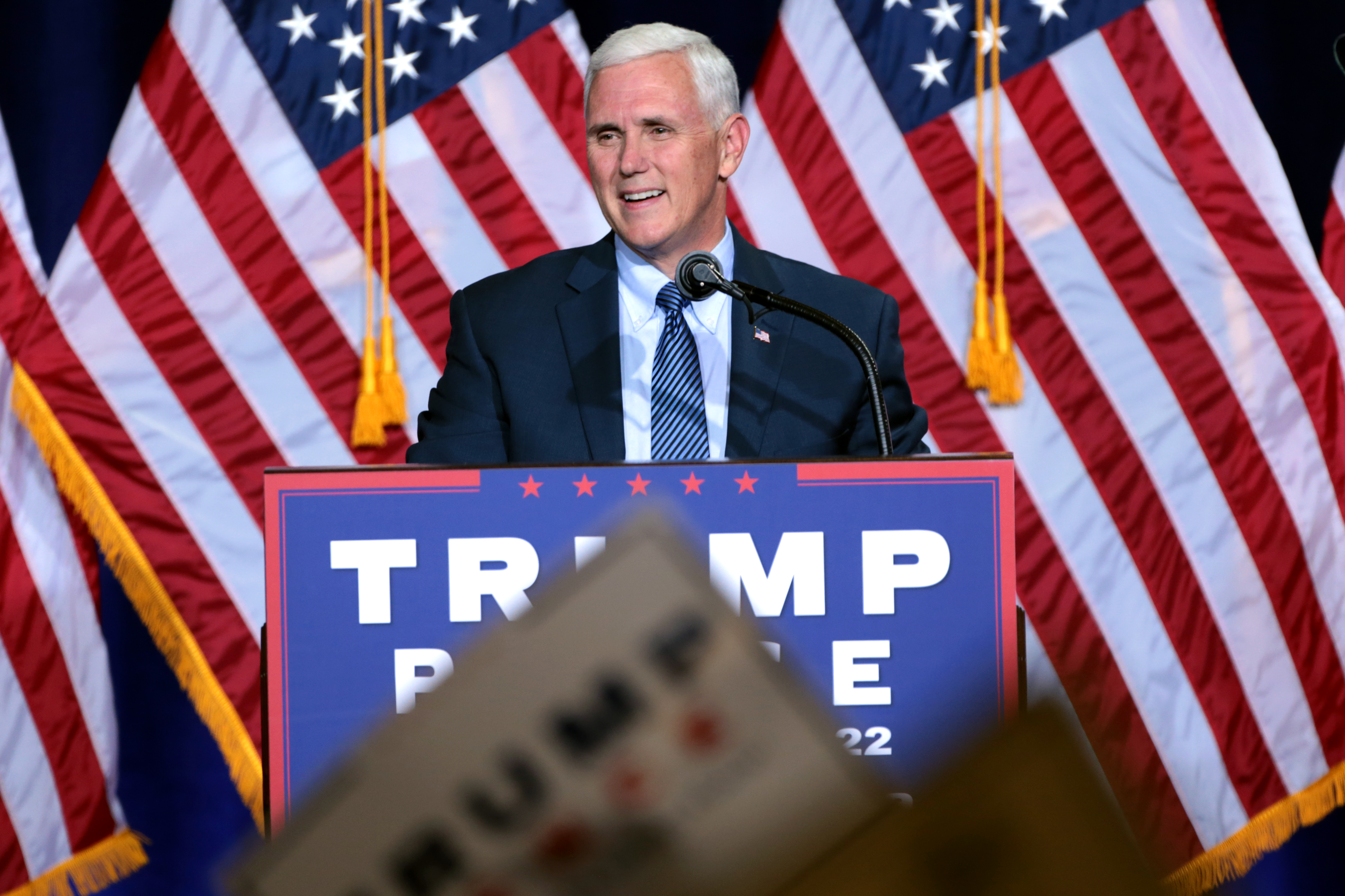 Governor Mike Pence of Indiana speaking to supporters at an immigration policy speech hosted by Donald Trump at the Phoenix Convention Center in Phoenix, Arizona.